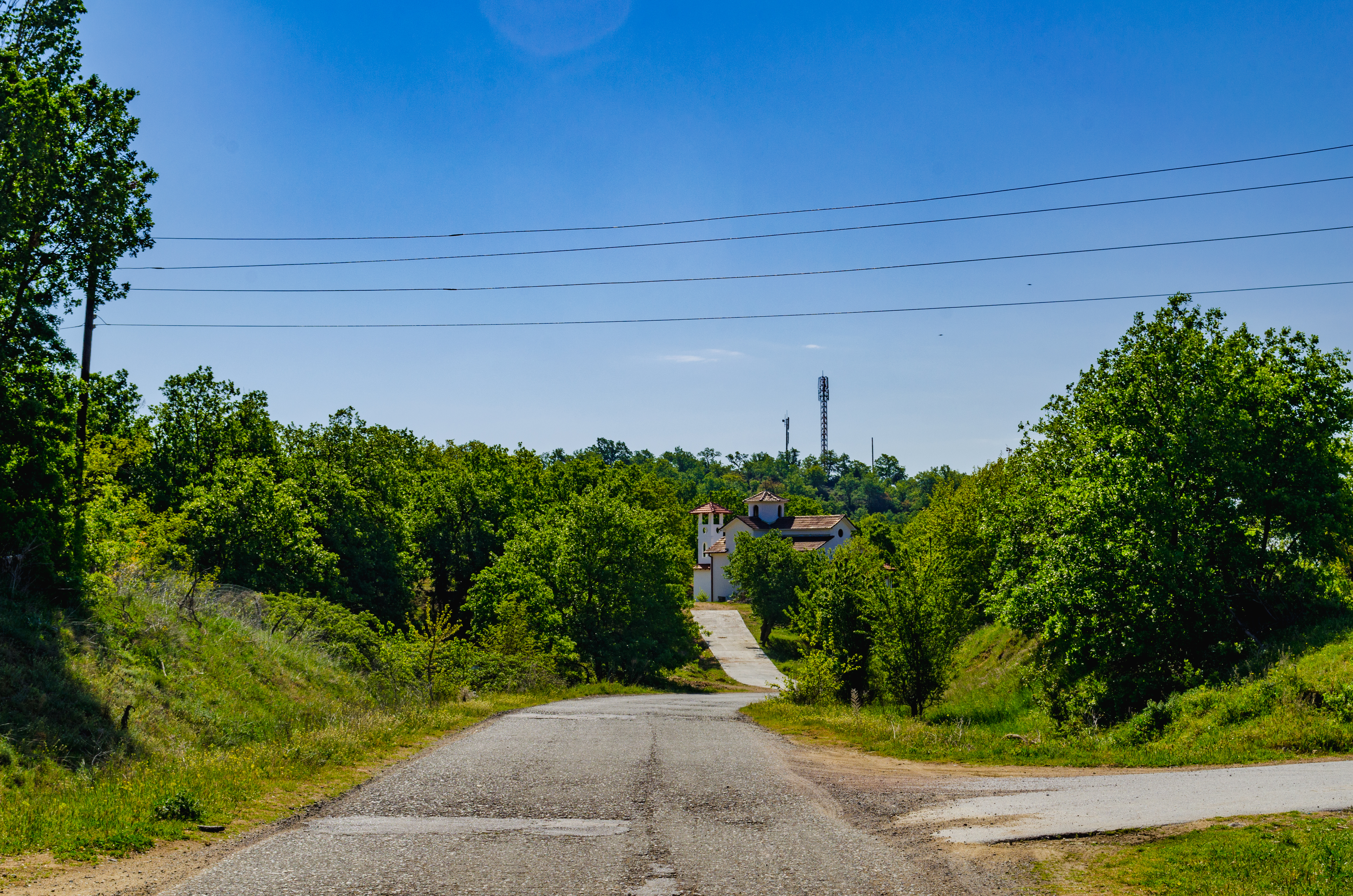 View of the St. Demetrius Church in the village Novo Konjsko